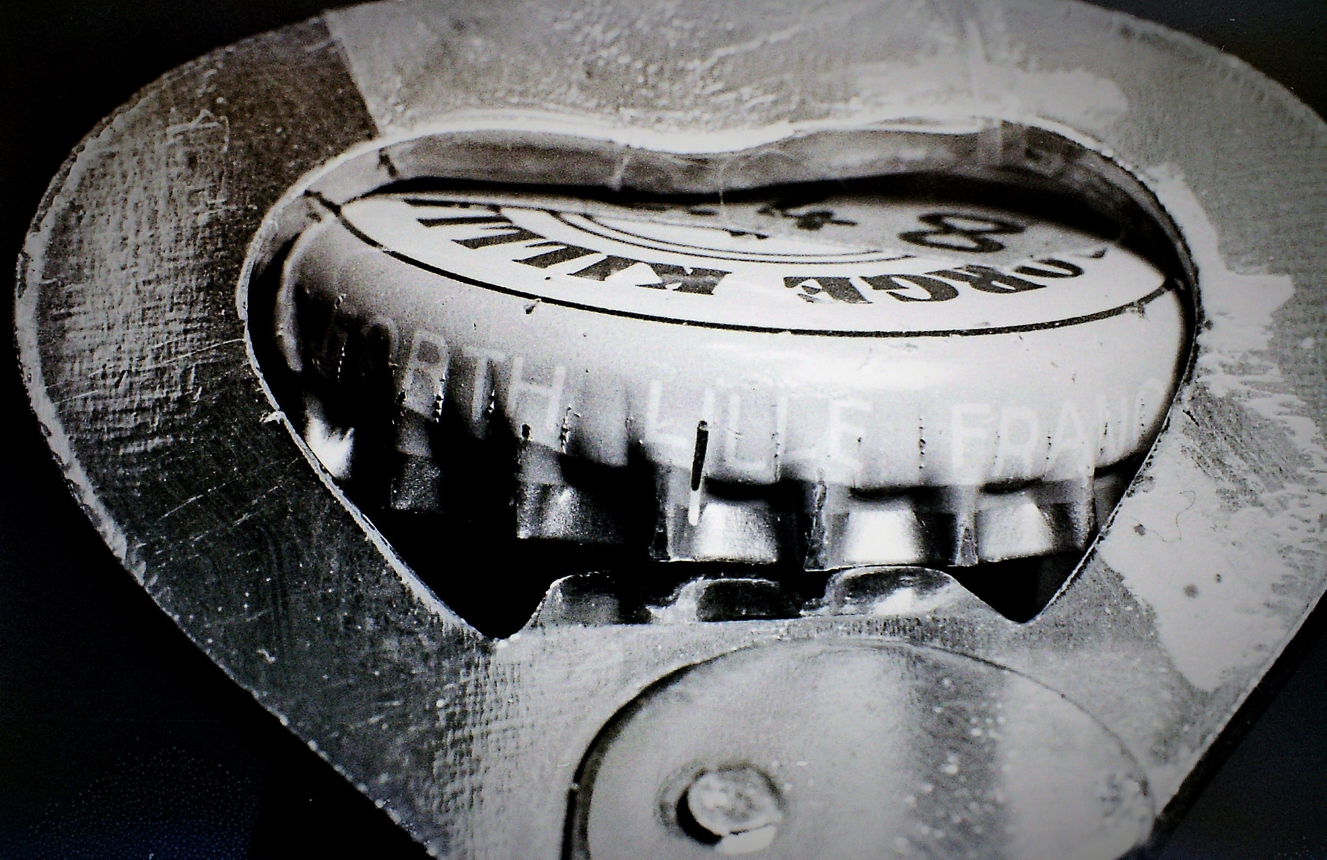 bottle opener